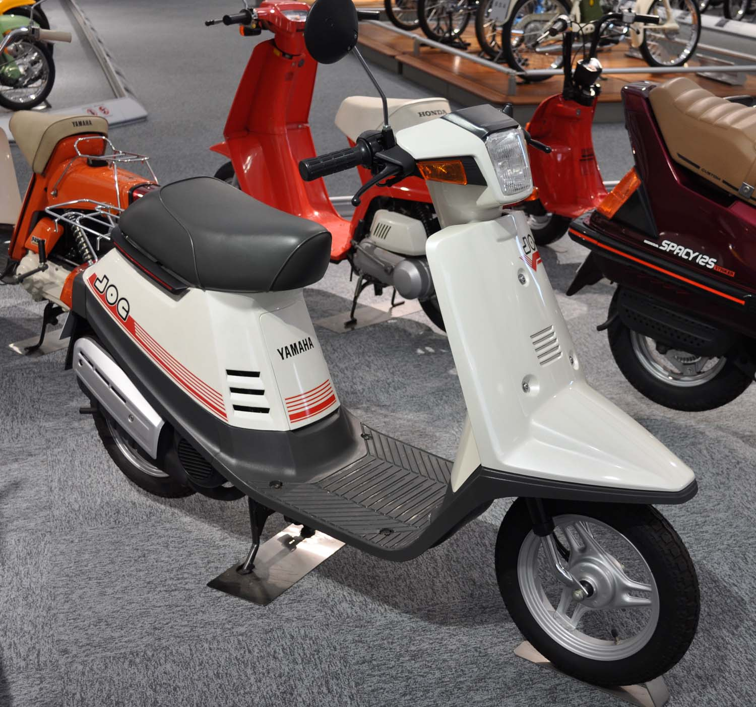 Yamaha Jog (1983)